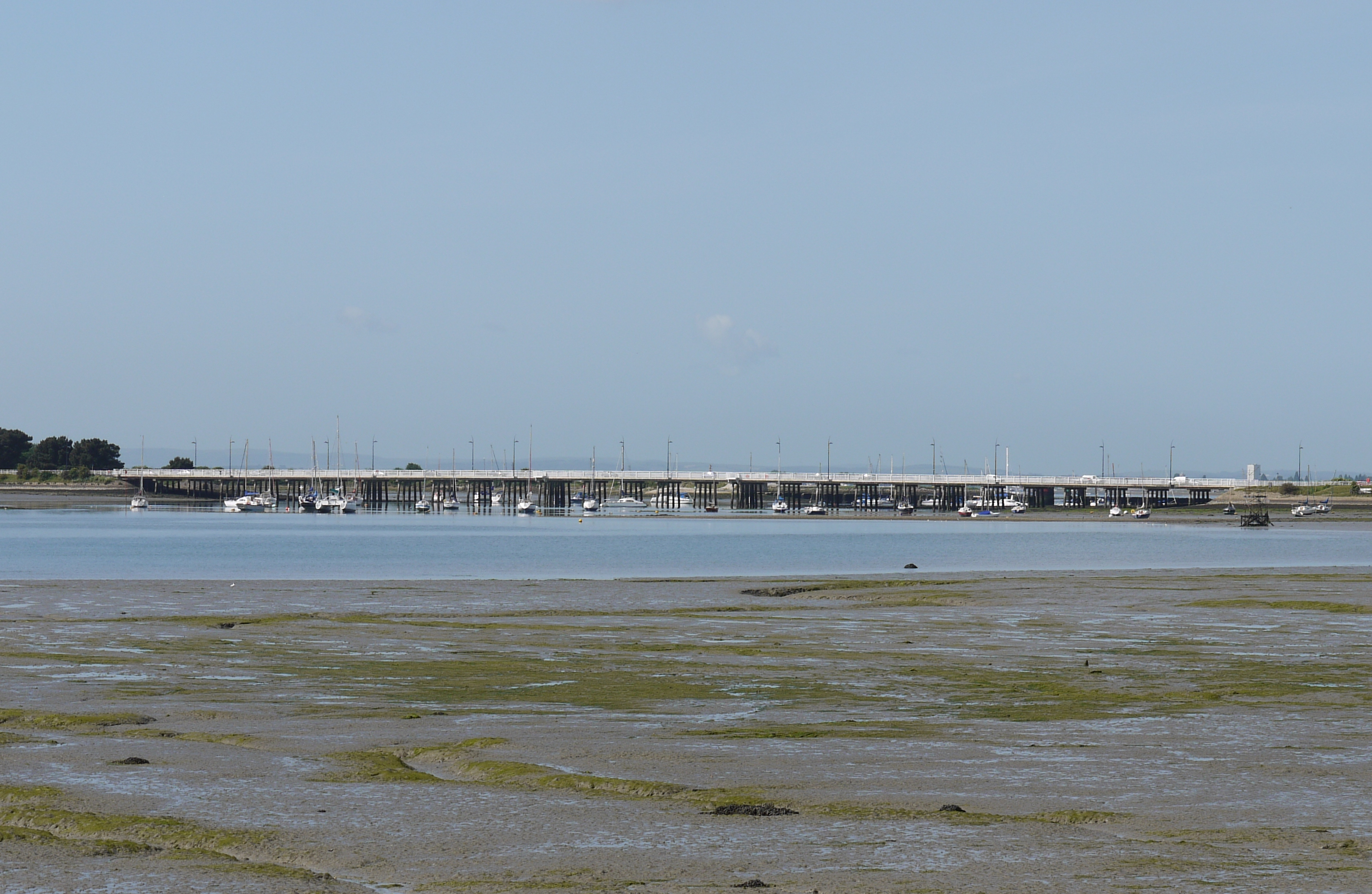 Photo of Langstone harbour bridge from the east.